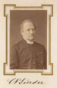 Portrait and signature of swedish professor Carl Wilhelm Linder (1825-1882). Cropped by the uploader. Original photo owned by Holmgrenska Släktföreningens arkiv, Stockholm .